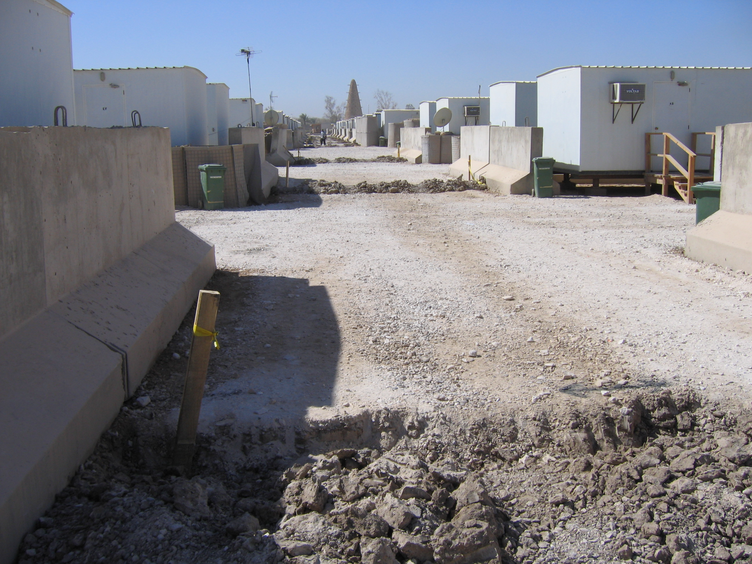 Photograph of the trailers in Camp Victory, Baghdad, the so-called "Dodge City North"